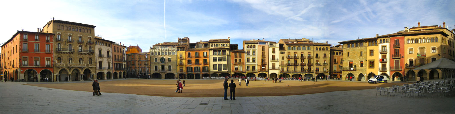 Photo of the Main square of Vic, county Osona, Catalonia, Spain.